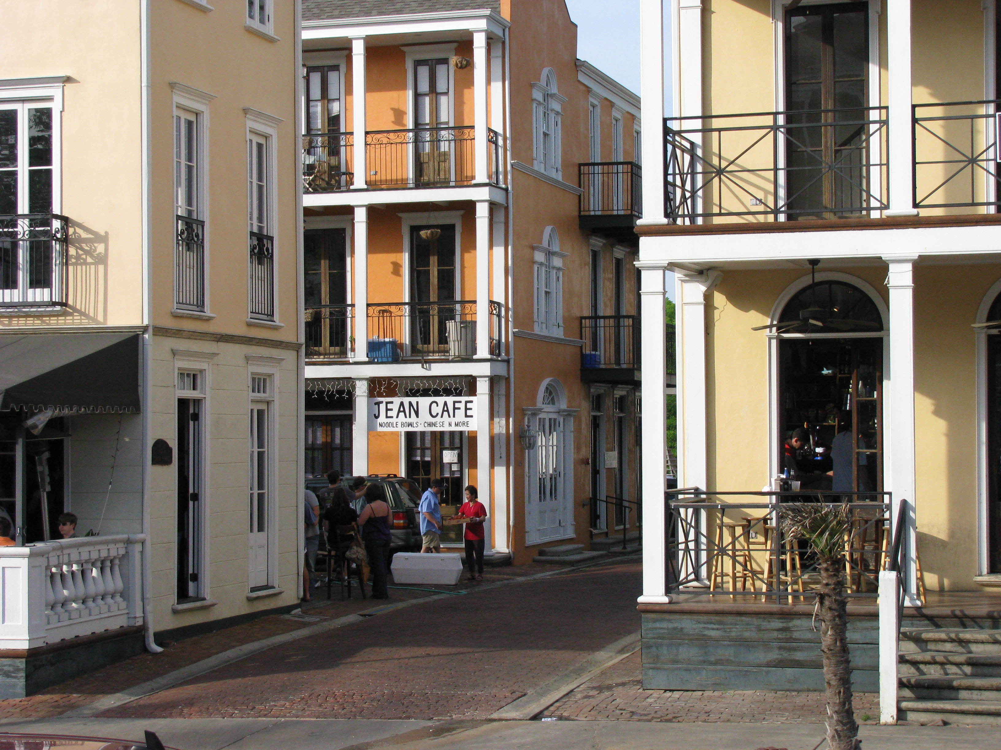 The Cotton District, Starkville, Mississippi, United States.